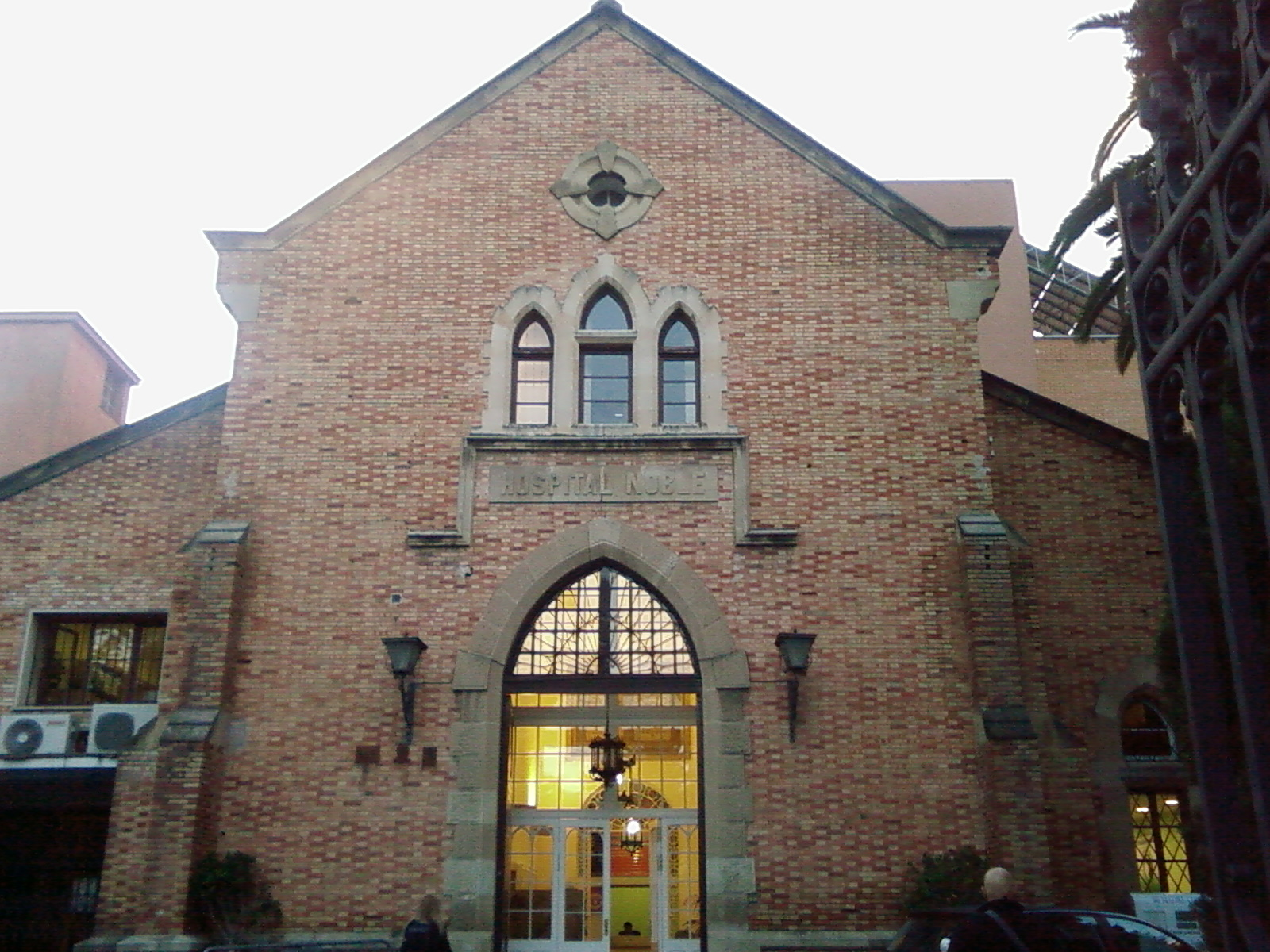 Hospital Noble, Málaga, Spain